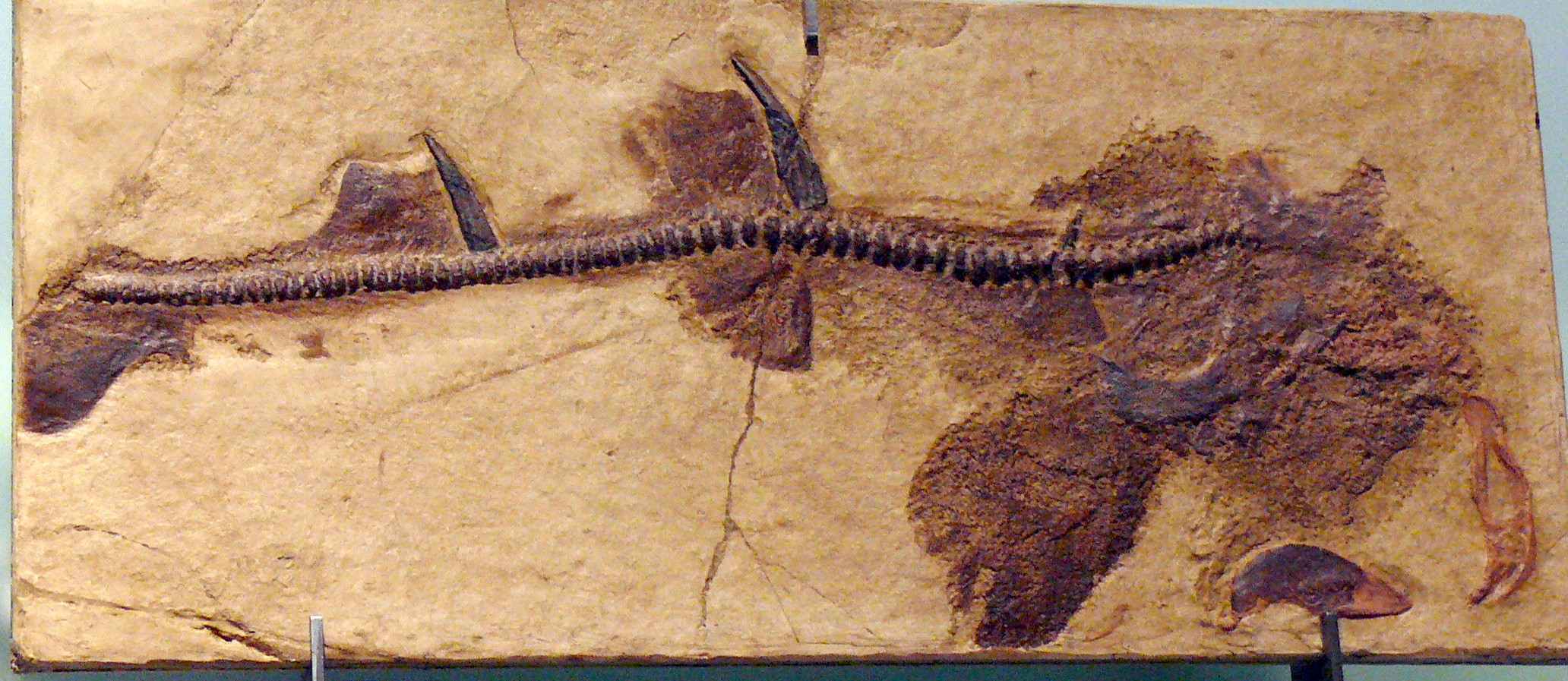 Paracestracion falcifer from Solnhofen, Germany